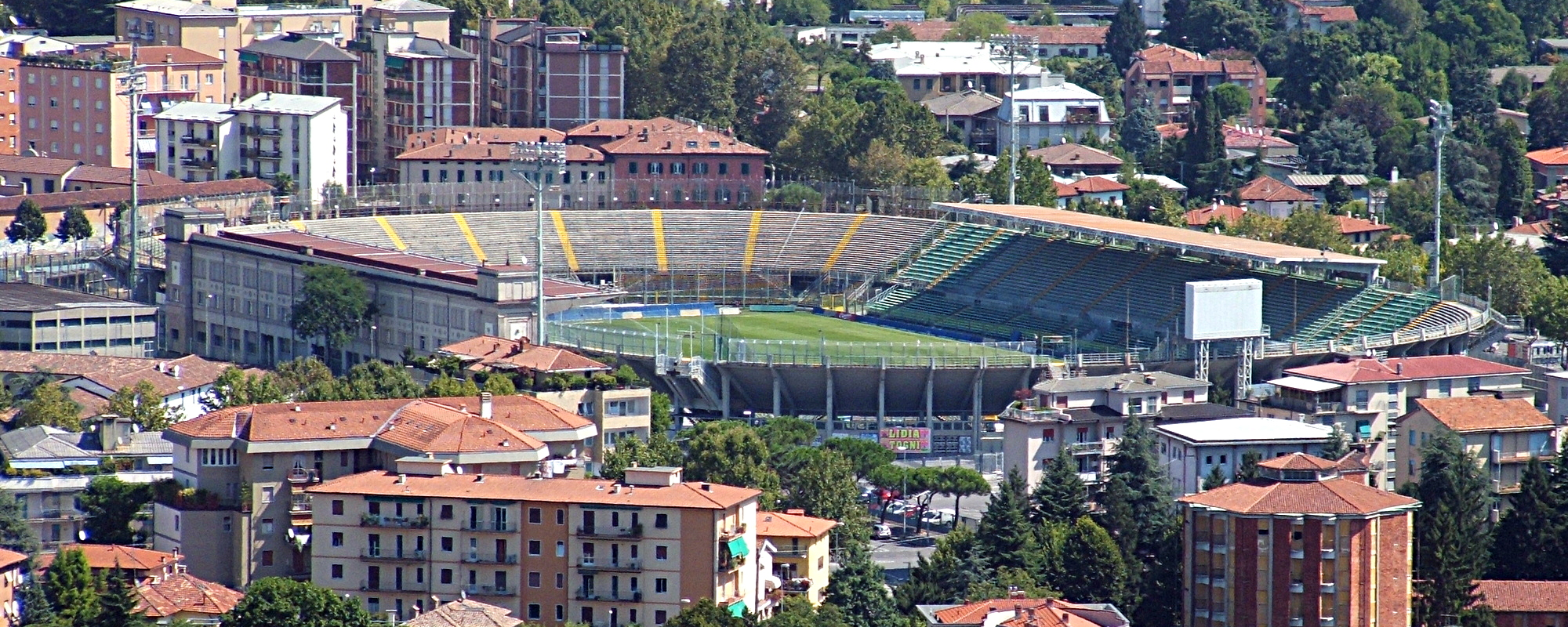 Stadium of Bergamo - Italy